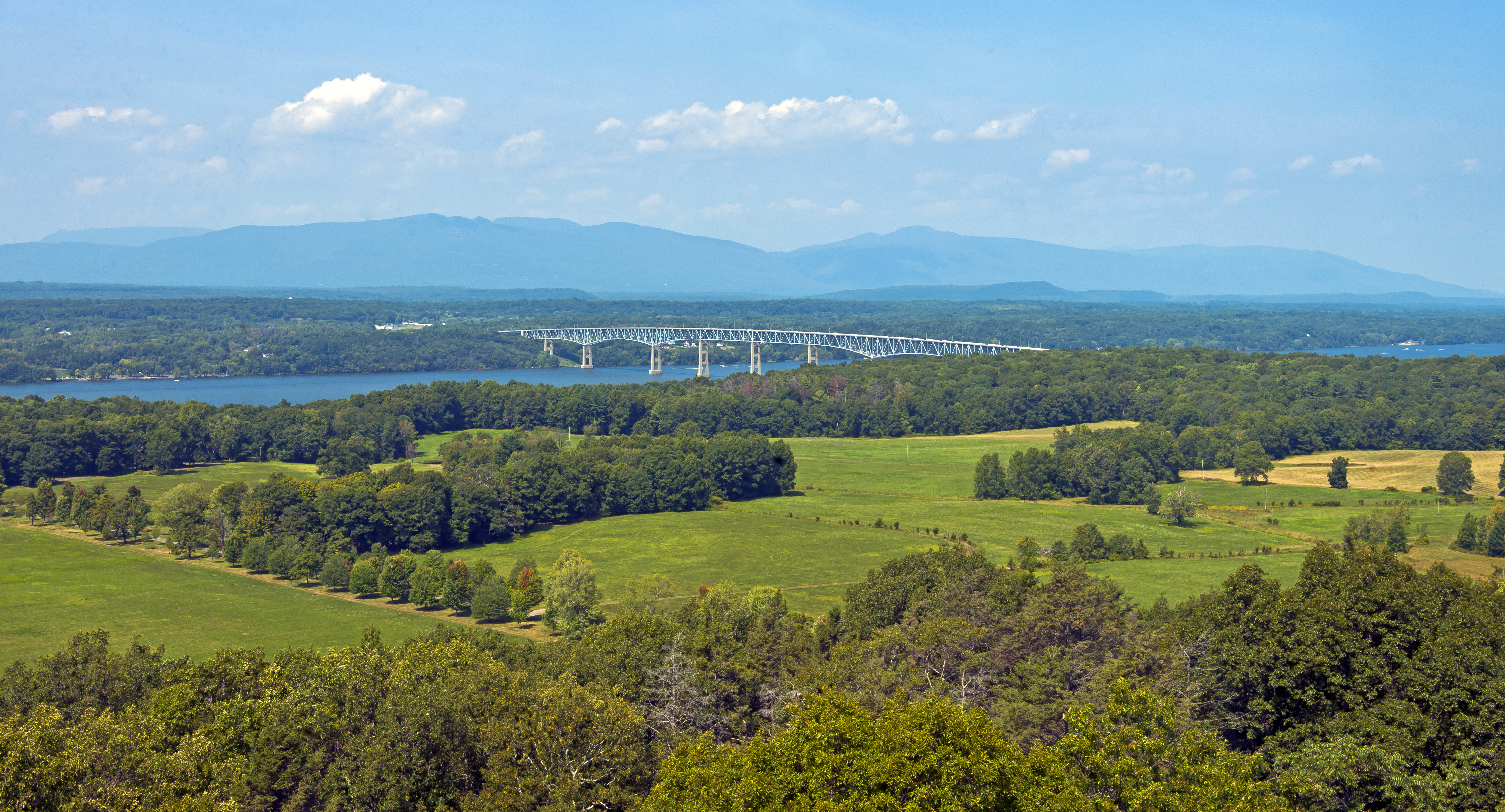 The lower Catskill Escarpment and Kingston–Rhinecliff Bridge over the Hudson River seen from the fire tower in Ferncliff Forest, Rhinebeck, NY, USA